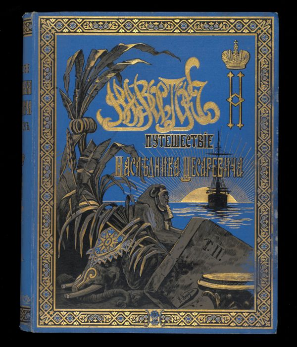 UKHTOMSKY, E. The Account of Travels Made by His Imperial Highness Tzesarevich to the East, 1890–1891